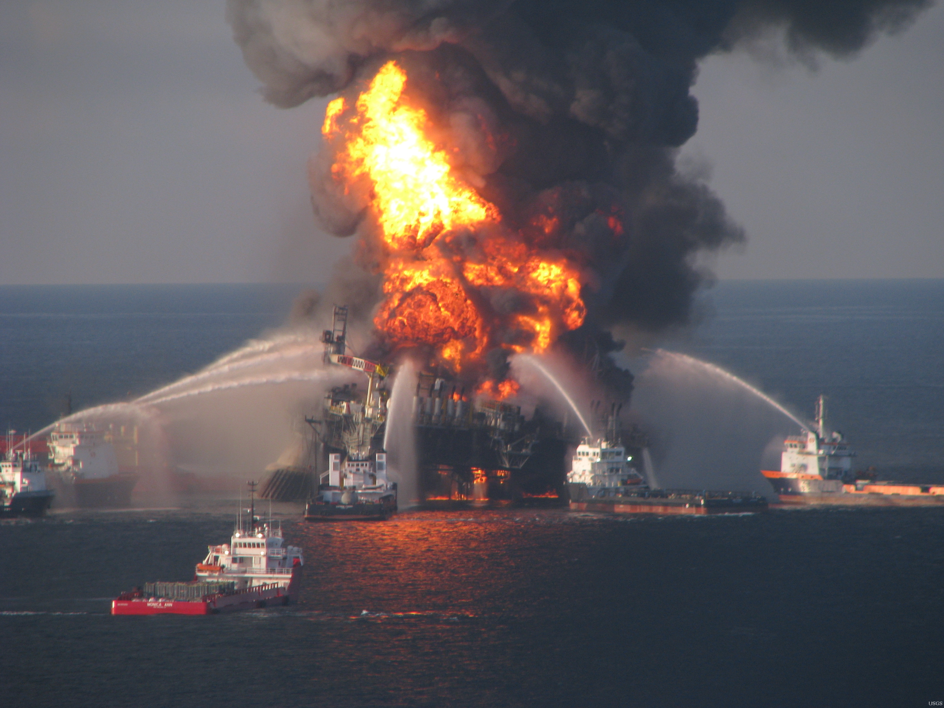 Vessels equipped with water cannons try to fight the devastating Deepwater Horizon fire.